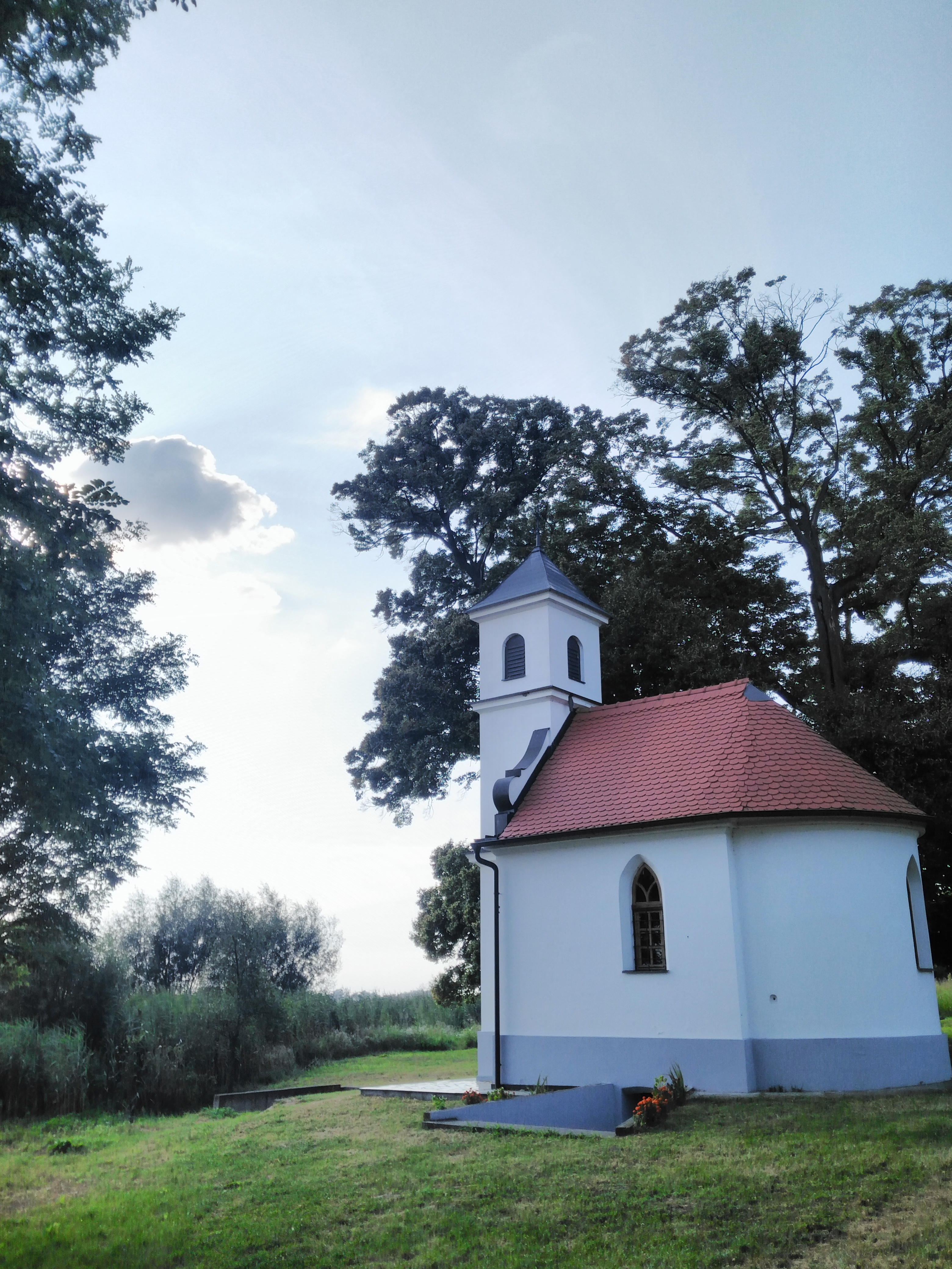 Serbian Orthodox Church of St. Panteleimon in Mirkovci.